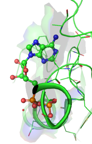 Complex of the catalytic portion of human HMG-CoA reductase with mevastatin